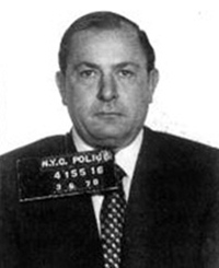 This is a mugshot of Colombo crime family boss Joseph Colombo.